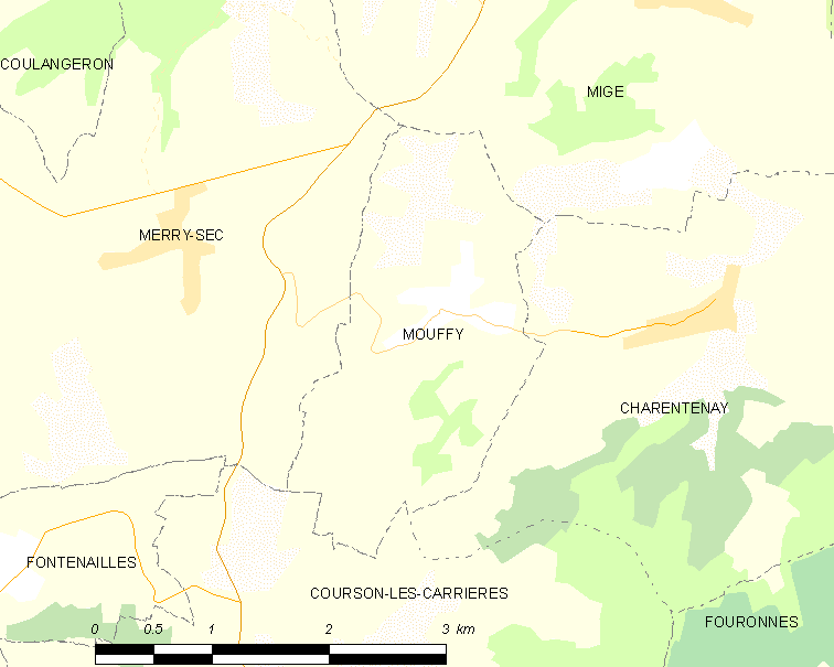 Map of French municipality Mouffy